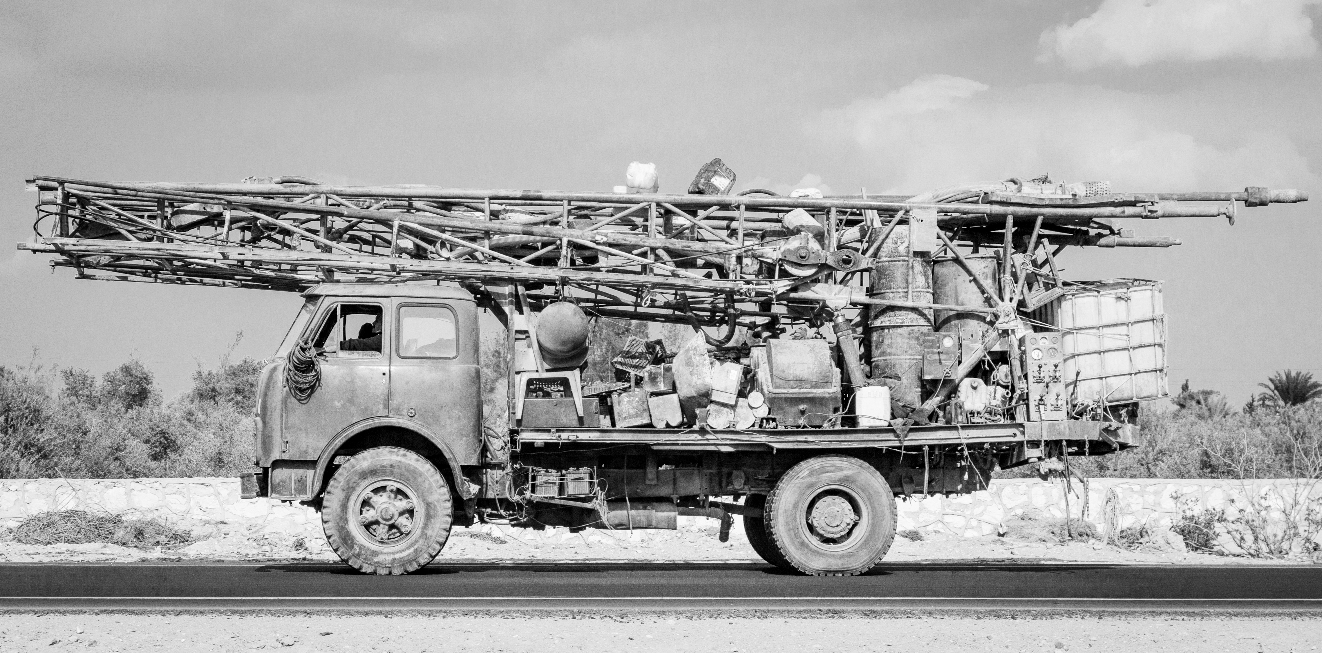 a maz 500 rig on the road between Cairo and Alexandria